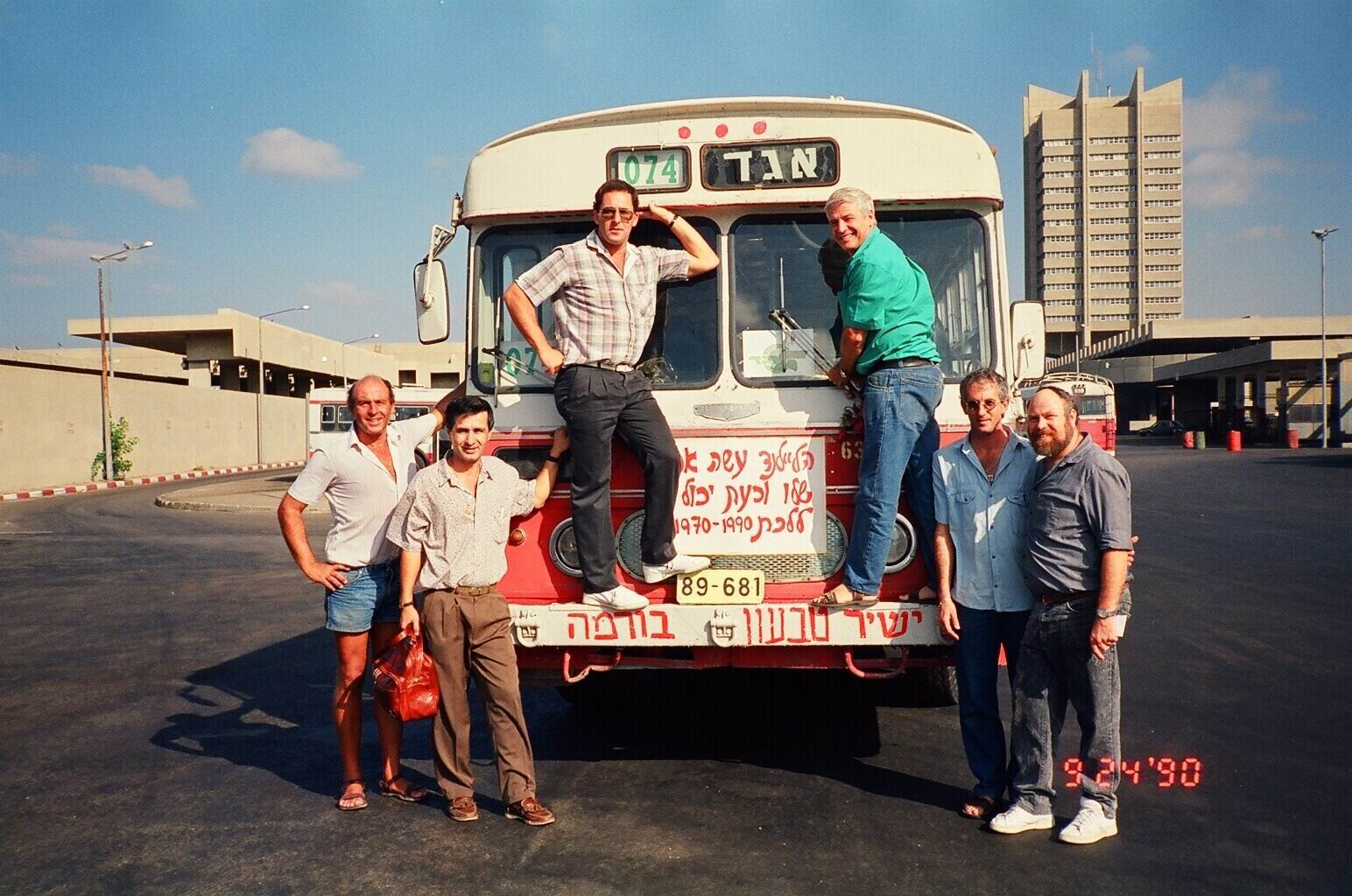 Transport in Israel